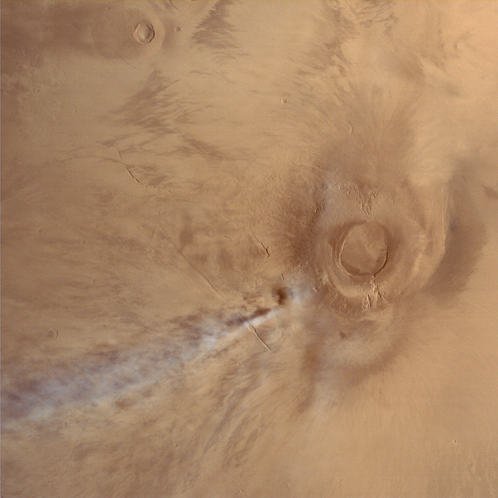 Mars Orbiter Mission image of the Tharsis volcano Arsia Mons, with an orographic cloud streaming away to the southeast. This image was taken by the orbiter on January 4, 2015, while the spacecraft was at an altitude of 10800 km. Image Credit: ISRO / ISSDC / Justin Cowart